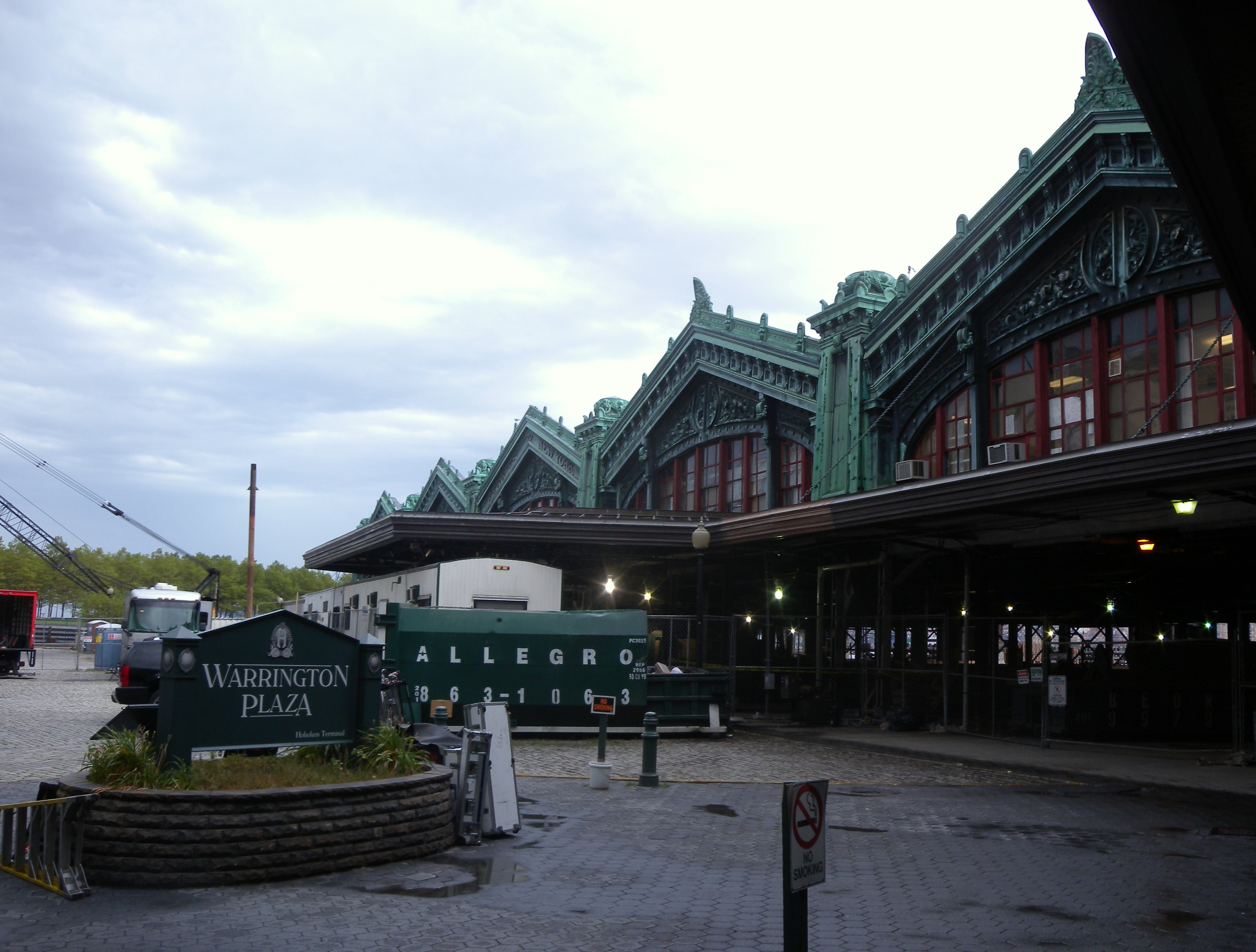 Looking northeast at Warrington Plaza on a rainy afternoon.